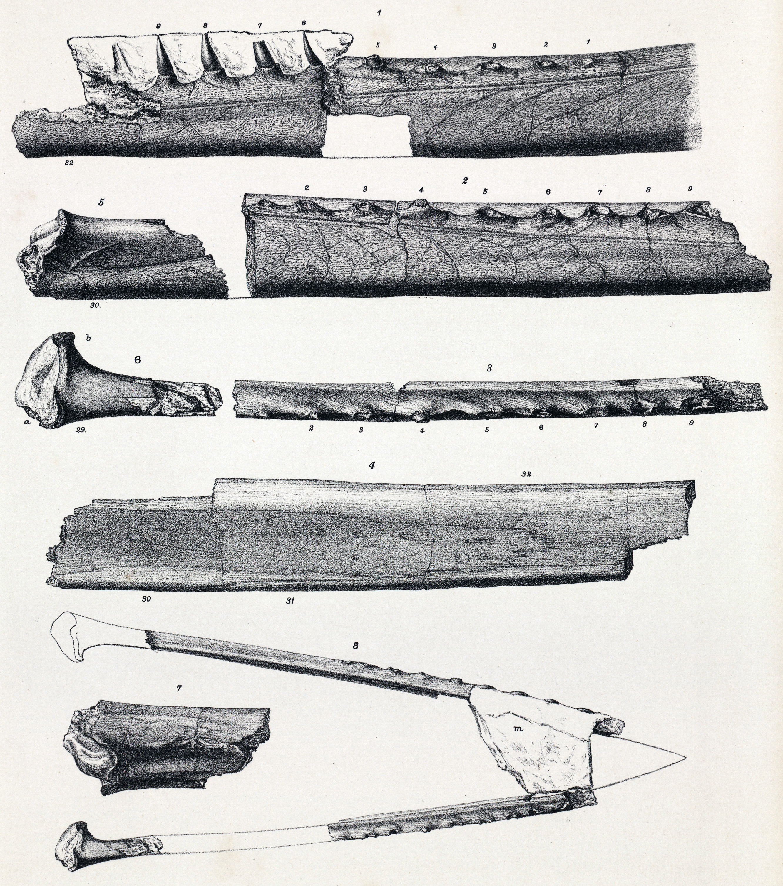 Fig. 1. Outer side view of part of left mandibular ramus, with teeth, of Pterodadylus sagittirostris. Fig. 2. Outer side view of part of right ramus of the same mandible. Fig. 3. Upper view of the same specimen. Fig. 4. Inner side view of part of the left mandibular ramus of ditto. Fig. 5. Outer side view of articular part of the right mandibular ramus of ditto. Fig. 6. Upper view of the same specimen. Fig. 7. Inner side view of the same specimen. The above figures are of the natural size. Fig. 8. Reduced upper view of the same specimens, with conjectural restoration, in dotted outline, of the form or proportions of the entire mandible of Pterodadylus sagittirostris. This fossil, from the Hastings series of the Wealden, west of St.-Leonard's-on-Sea, Sussex, is in possession of its discoverer, Samuel H. Beckles, Esq., F.R.S.